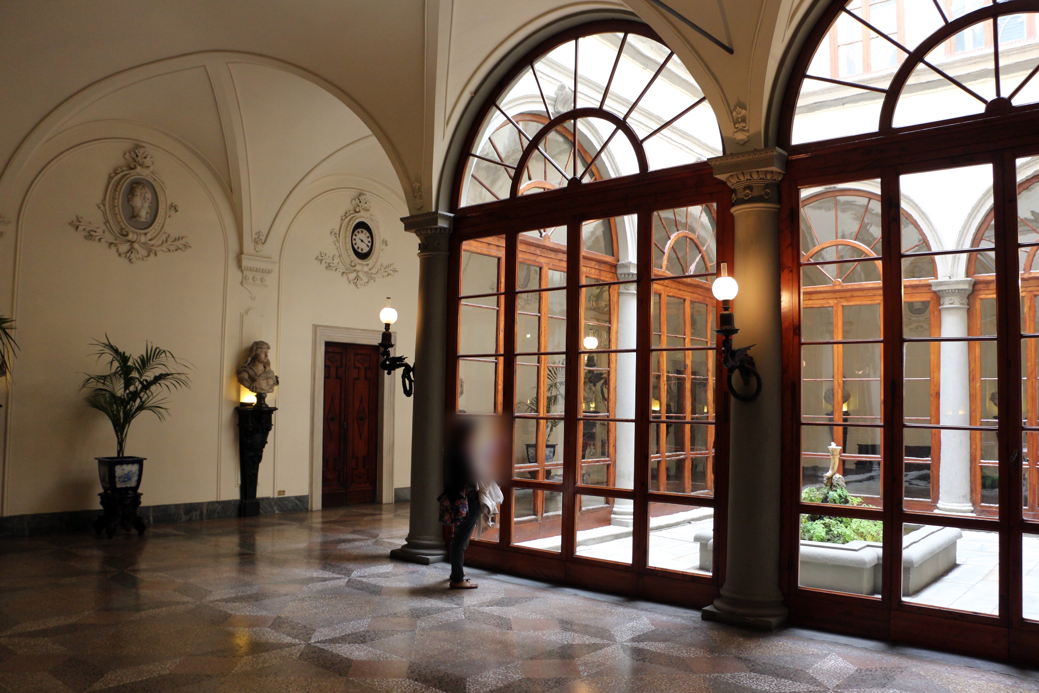 Palazzo Gerini